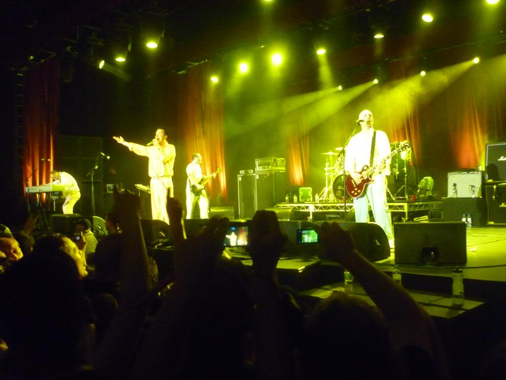 Faith No More at The Hordern Pavillion February 2010